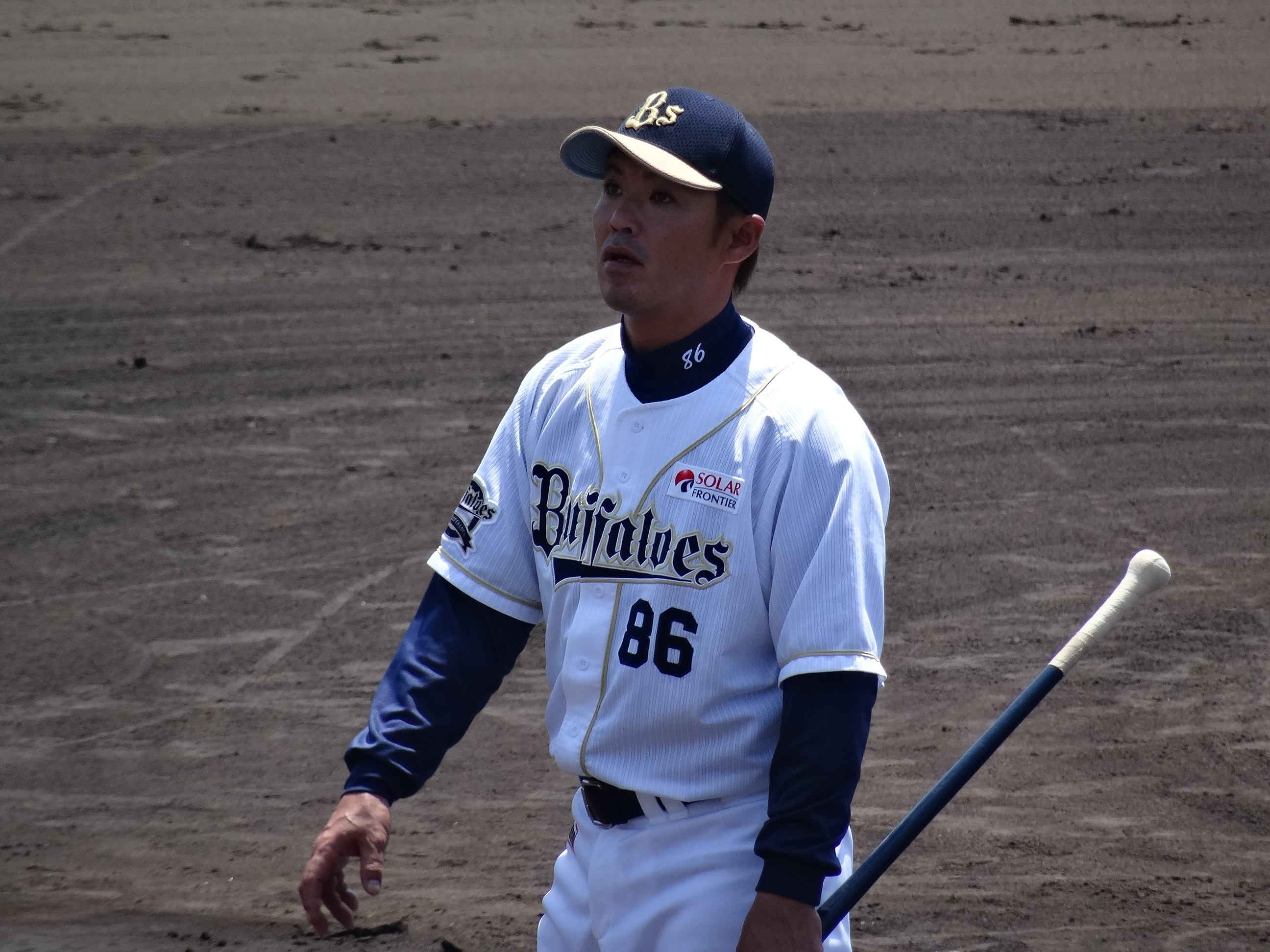 Makoto Shiozaki, coach of the Orix Buffaloes, at Kobe Sports Park Sub Baseball Ground.